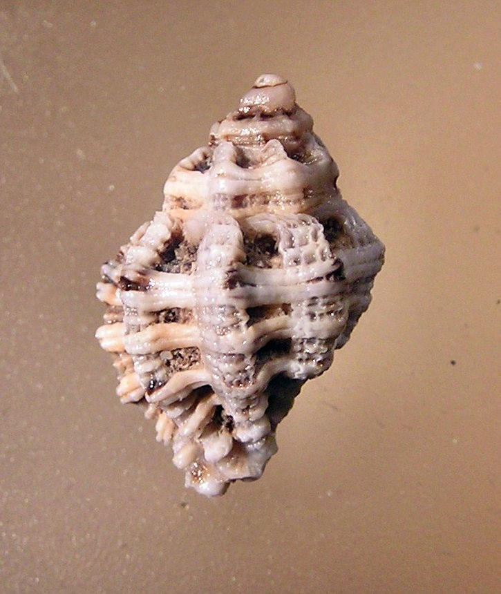 Muricodrupa fiscella (Gmelin, 1791) (synonym : Cronia (Muricodrupa) funiculus (Wood, 1828)), a murex snail from the family Muricidae; Philippines